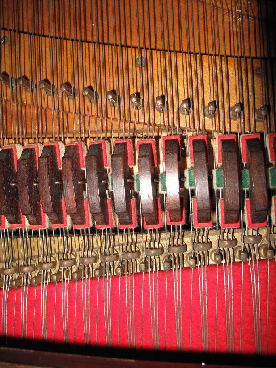 Blüthner aliquot system. Photo from a Blüthner Grand Piano made in 1874.